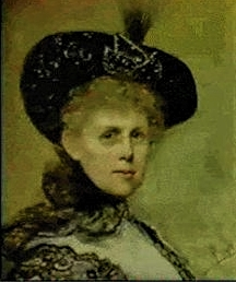 Self portrait of of the Danish painter Catherine Engelhart Amyot, oil on canvas, 55 x 44 cm